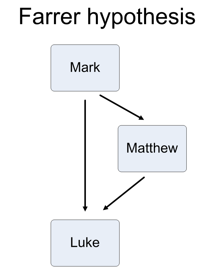 Farrer hypothesis solution of the synoptic problem